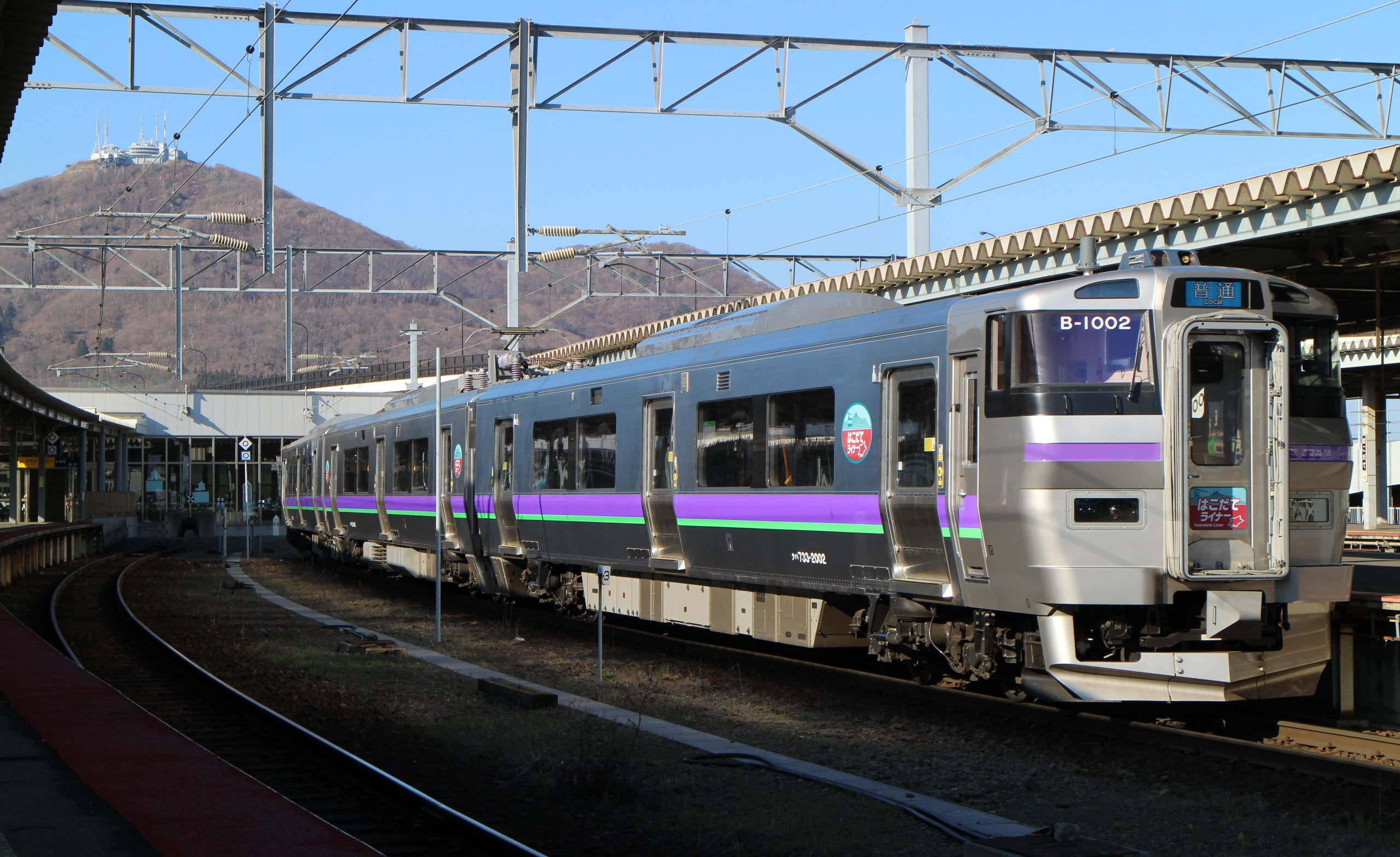 JR Hokkaido 733-1000 series EMU set B1002 at Hakodate Station on a Hakodate Liner service